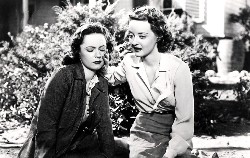 Promotional photograph of Geraldine Fitzgerald and Bette Davis in the film Dark Victory